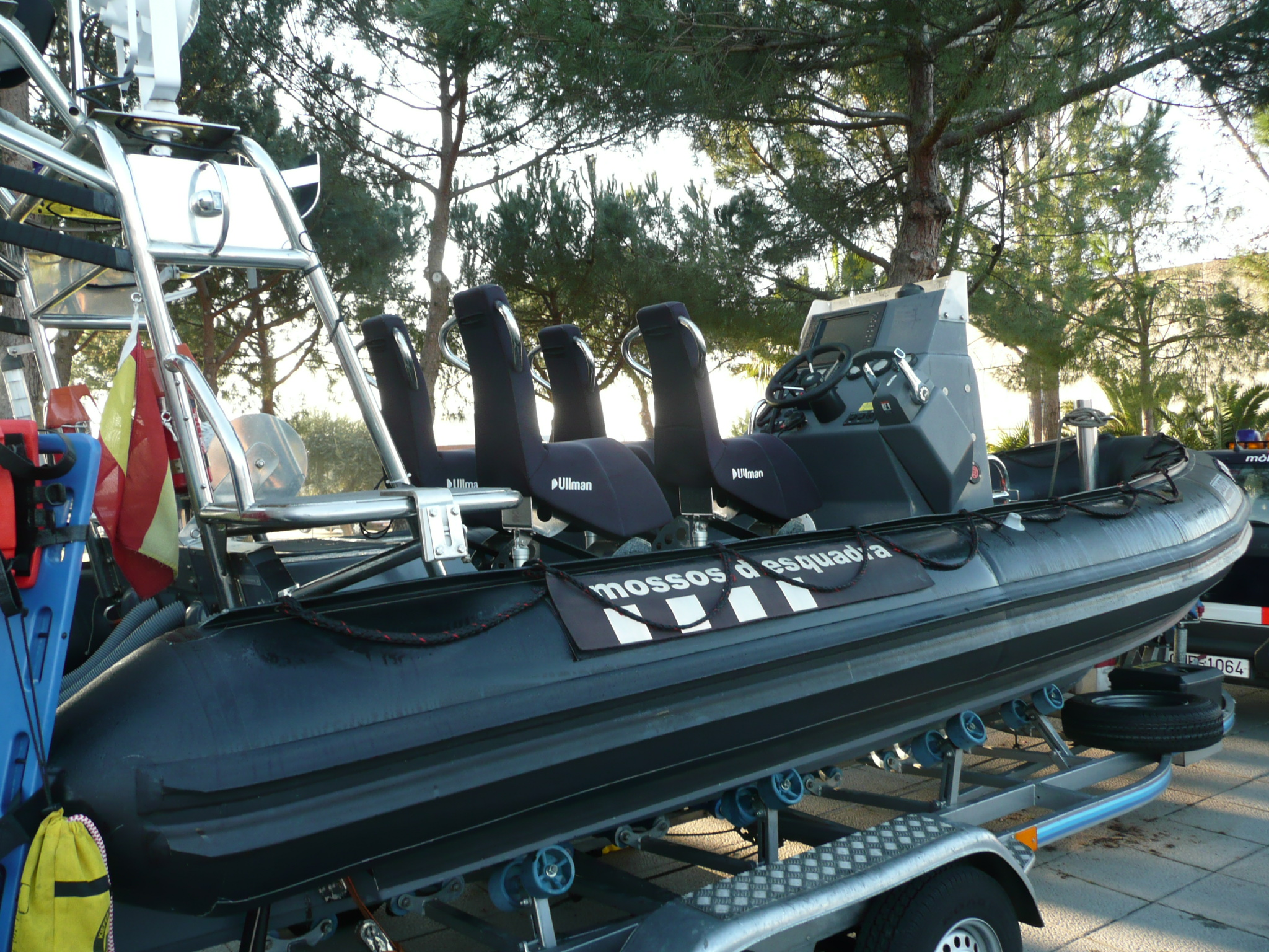 Large semi-rigid inflatable boat of Mossos d'Esquadra.